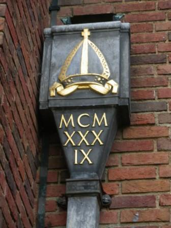 Leader Head (or what is often referred to as a 'rainhead' in the vernacular) with the down pipe connected below it. Situated on Guildford Cathedral.